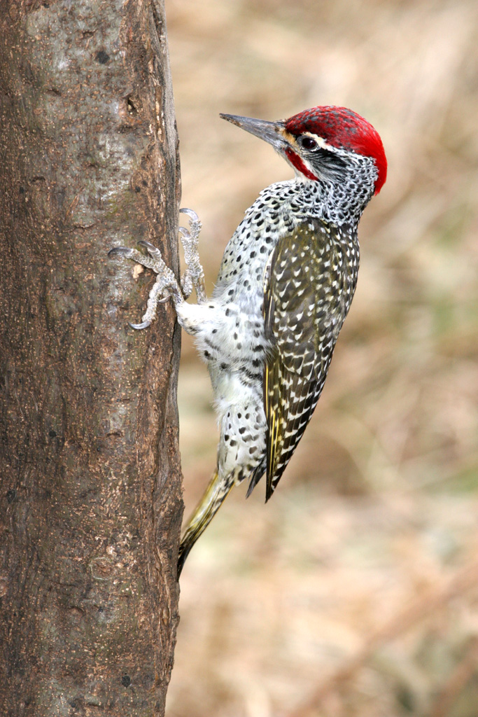 Nubian Woodpecker, Campethera nubica photographed at Samburu National Reserve by Brad Schram. Original description: Fairly common in riverine forest here.